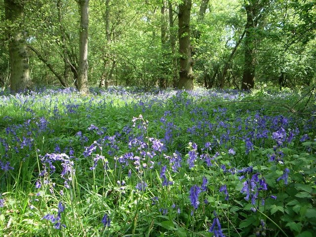 Bluebells in Hildersham Wood